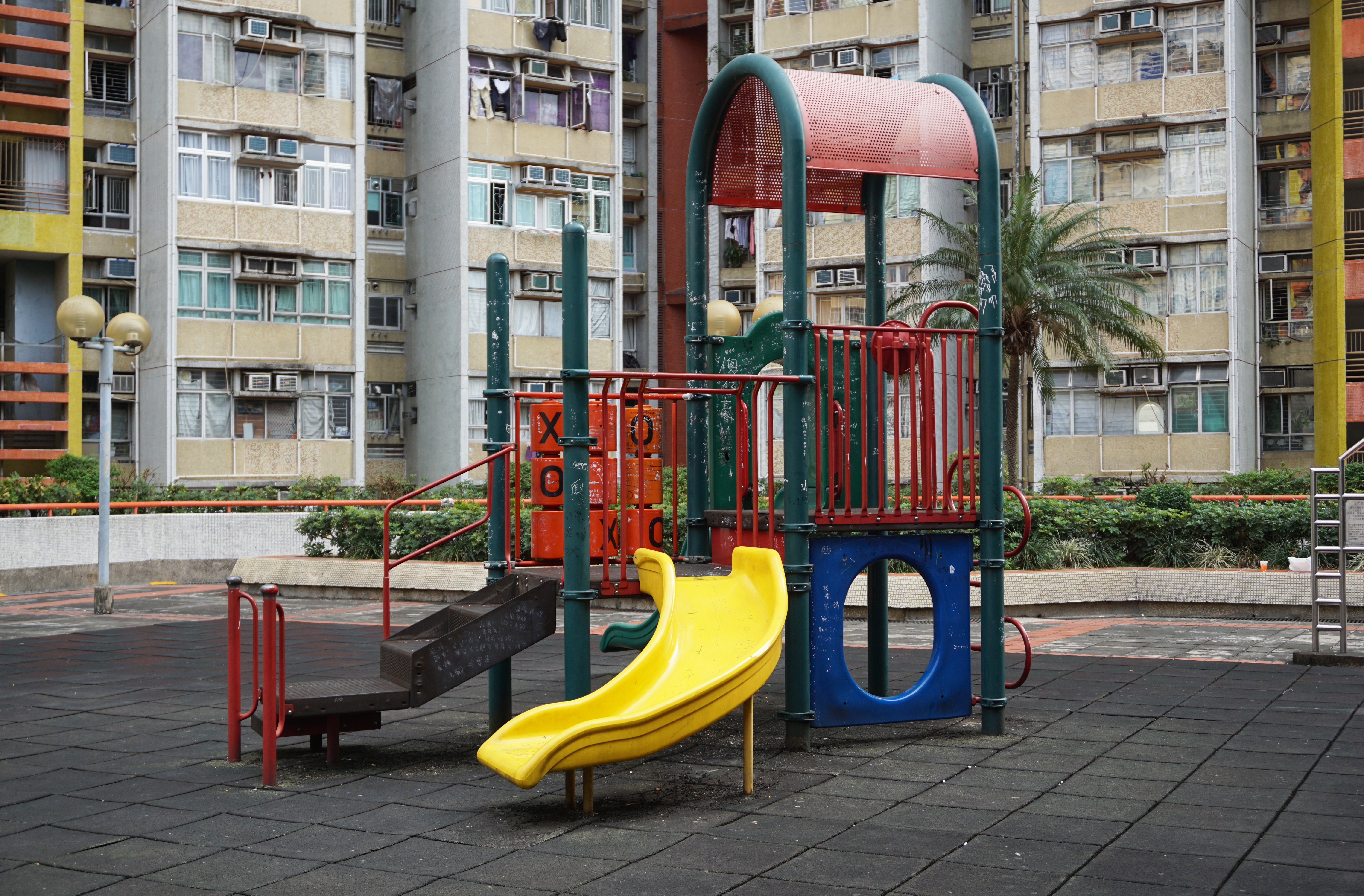 Cheung Fat Estate in Tsing Yi, Hong Kong.